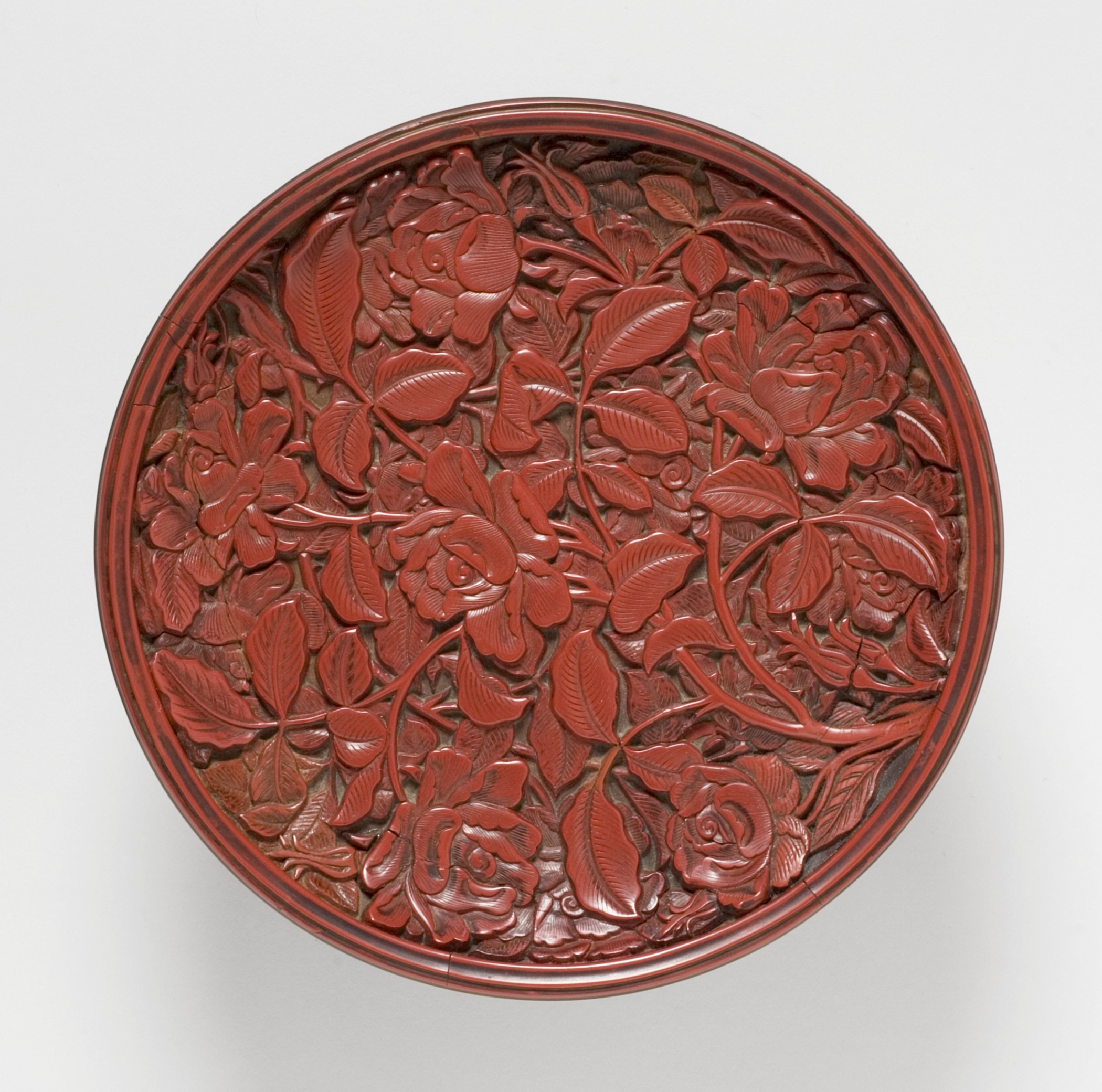 China, Yuan dynasty, 1279-1368 Furnishings; Serviceware Carved red lacquer on wood core Gift of the East Asian Art Council and friends in honor of June Li (M.2005.57) Chinese Art